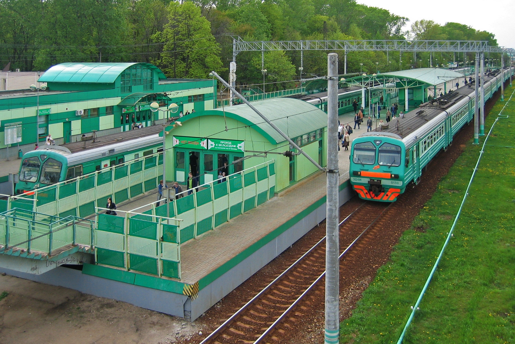 Panki train station in Lyubertsy, Moscow Oblast